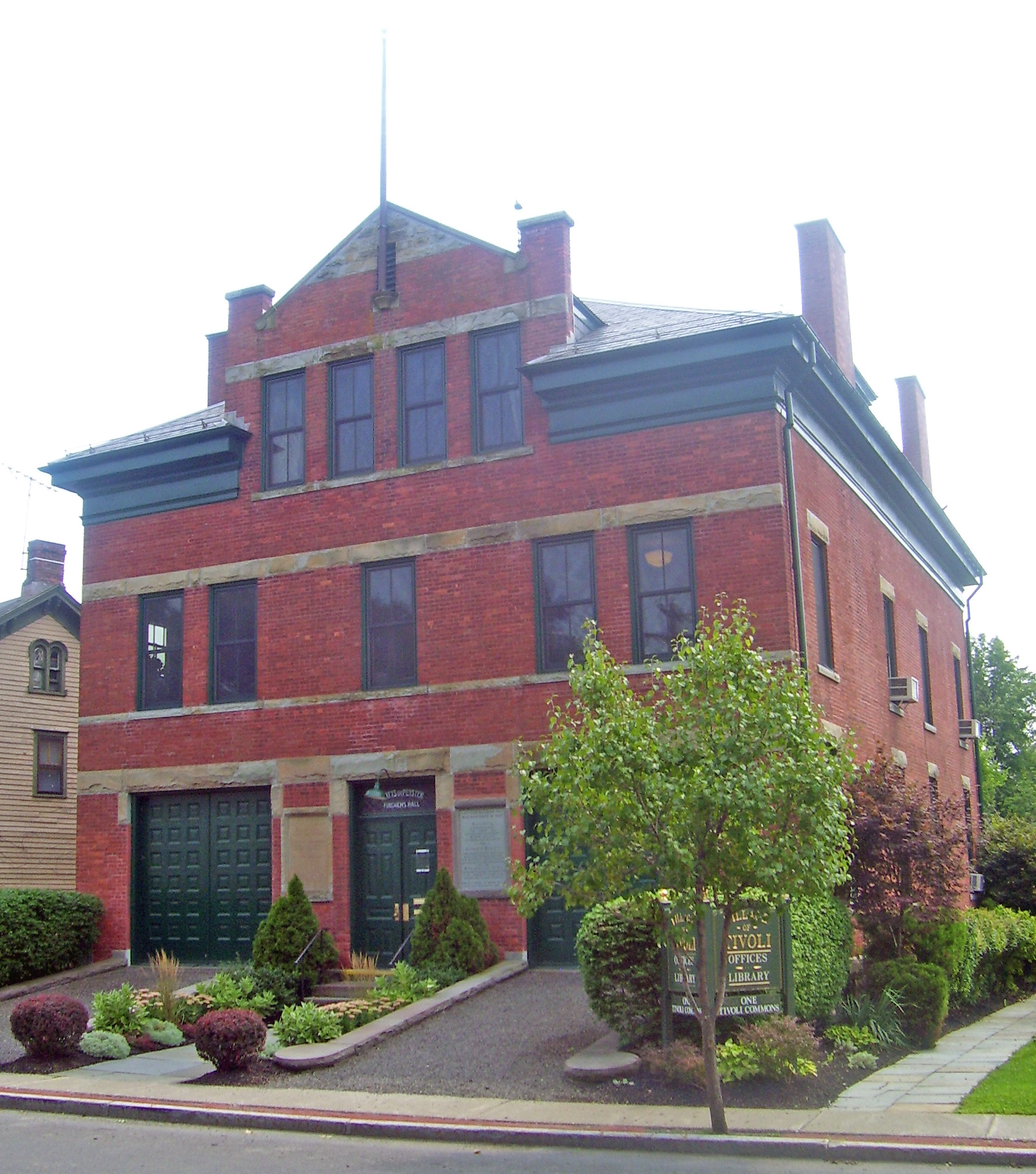 Watts de Payster Fireman's Hall, now Tivoli, NY, USA, village hall